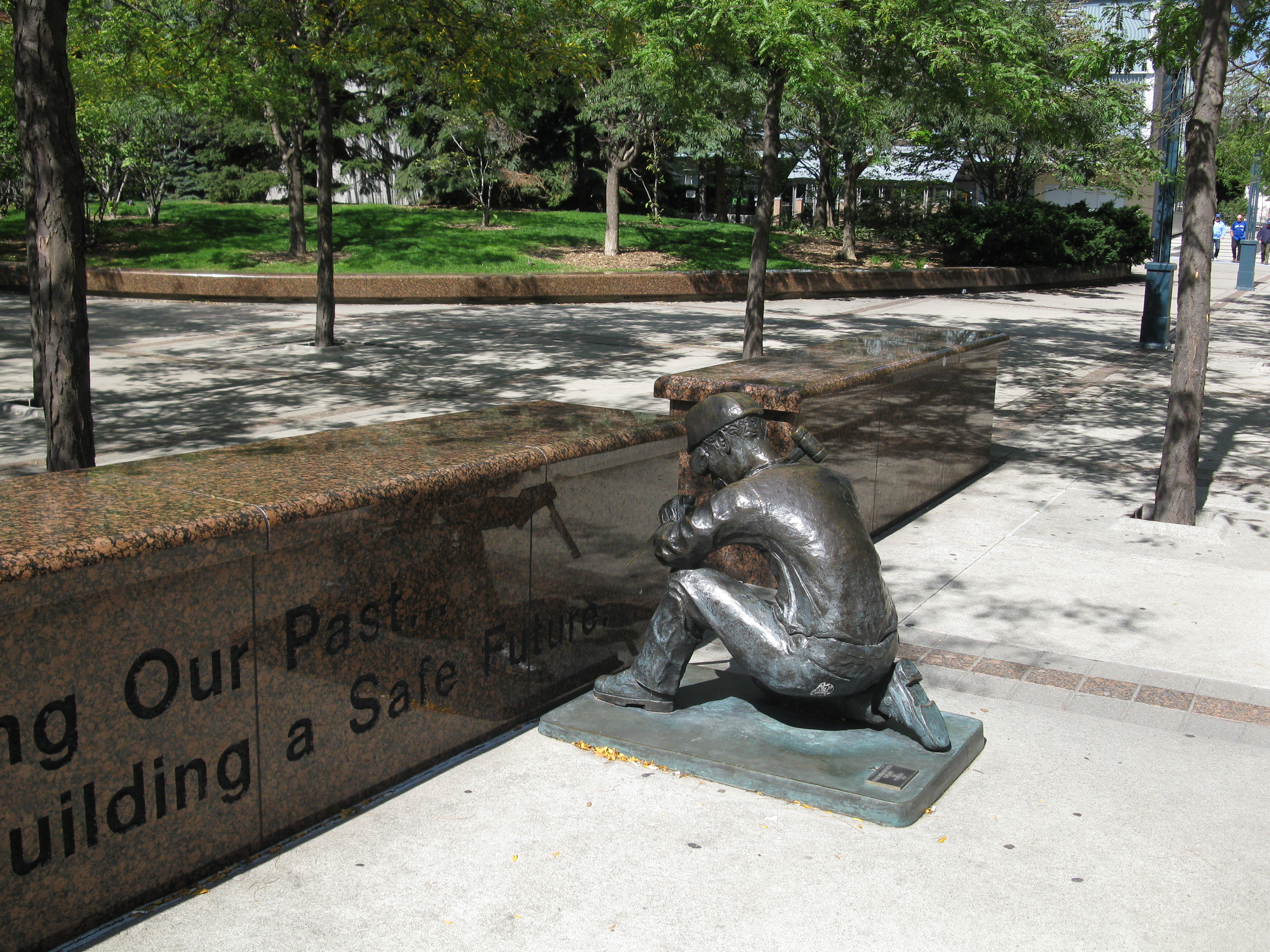 WCB monument just west of University and Front streets.